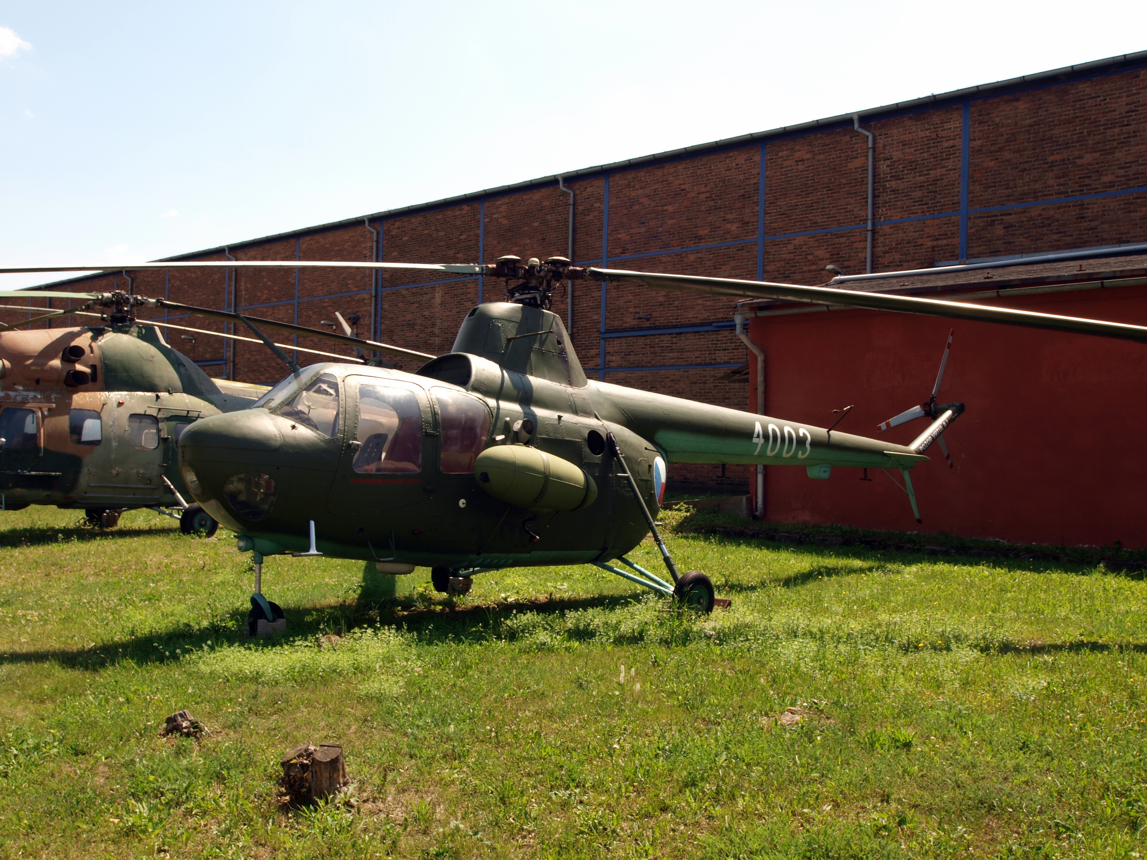 Mil Mi-1M Hare, Czech air force 4003, serie 404003. Photograph taken without a tripod (was not allowed!).